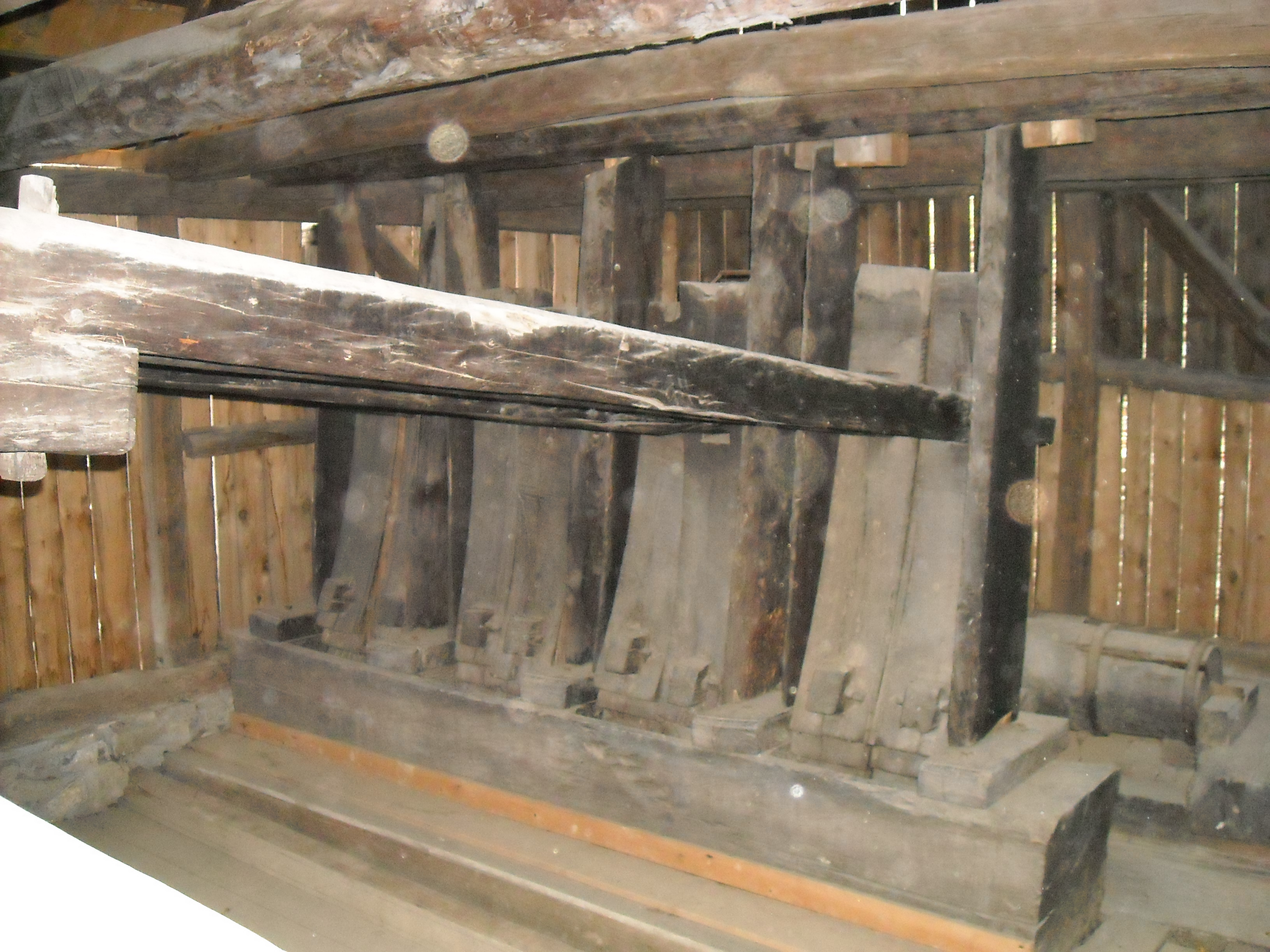 19-century fulling mill from Gura Râului, in the Village Museum, Bucharest